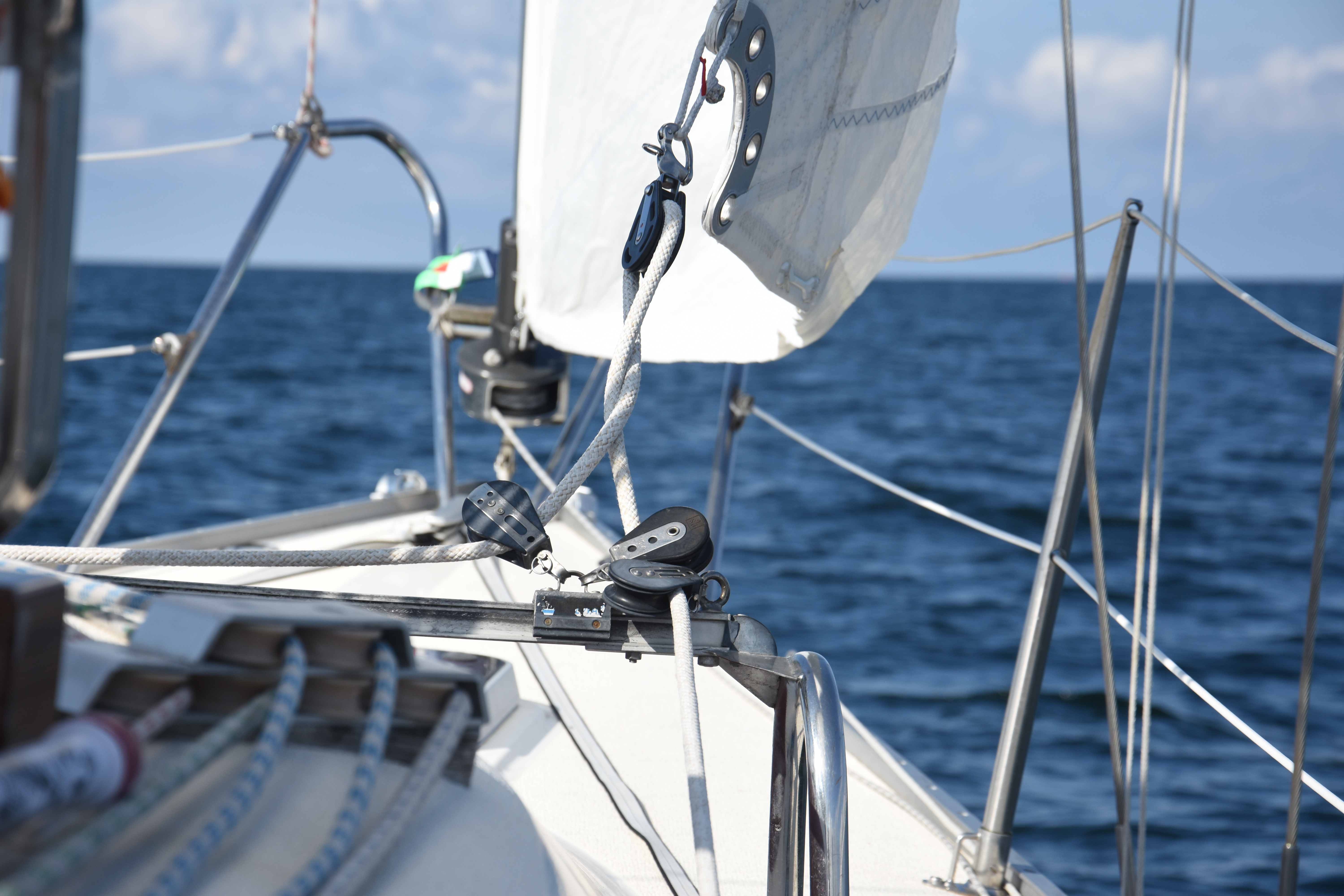 Self-tacking jib on a small sailboat